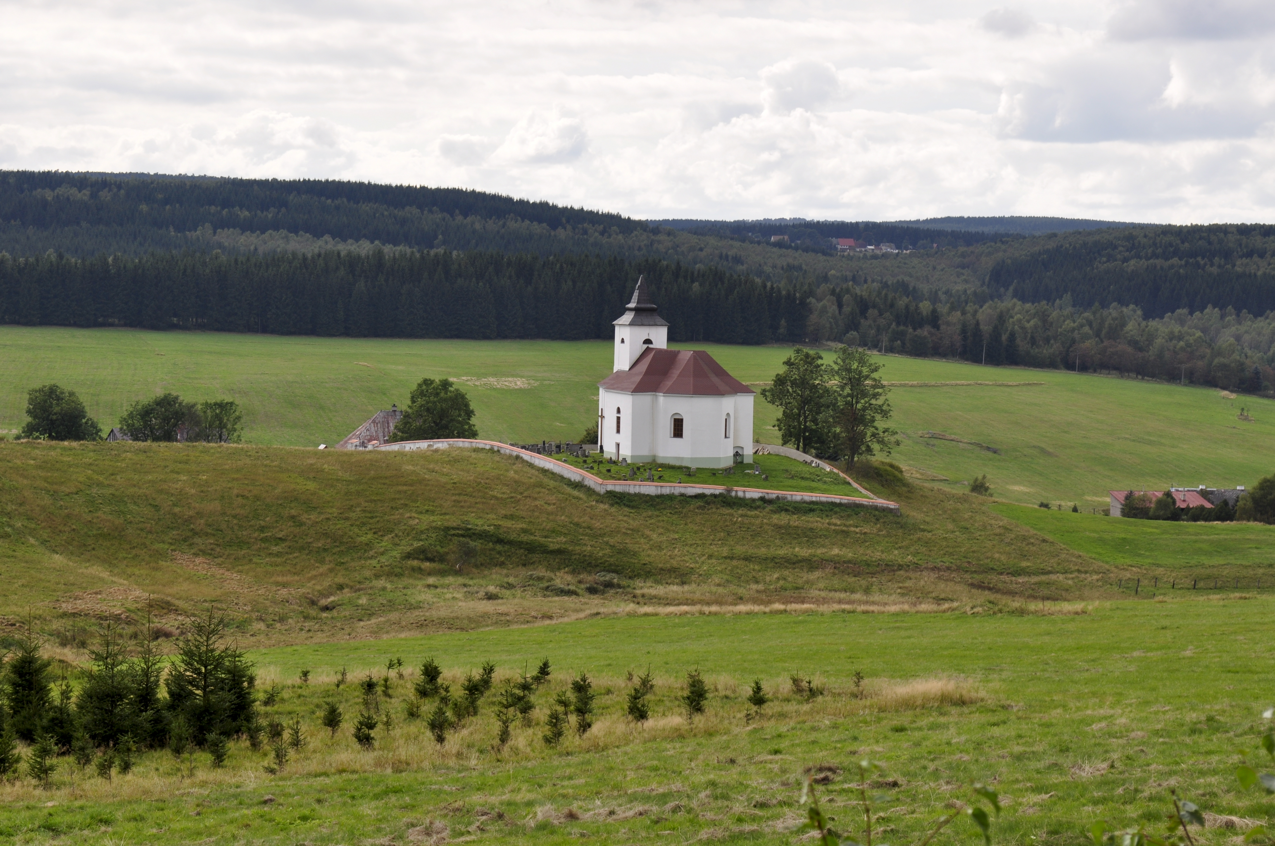 Saint Wenceslaus church